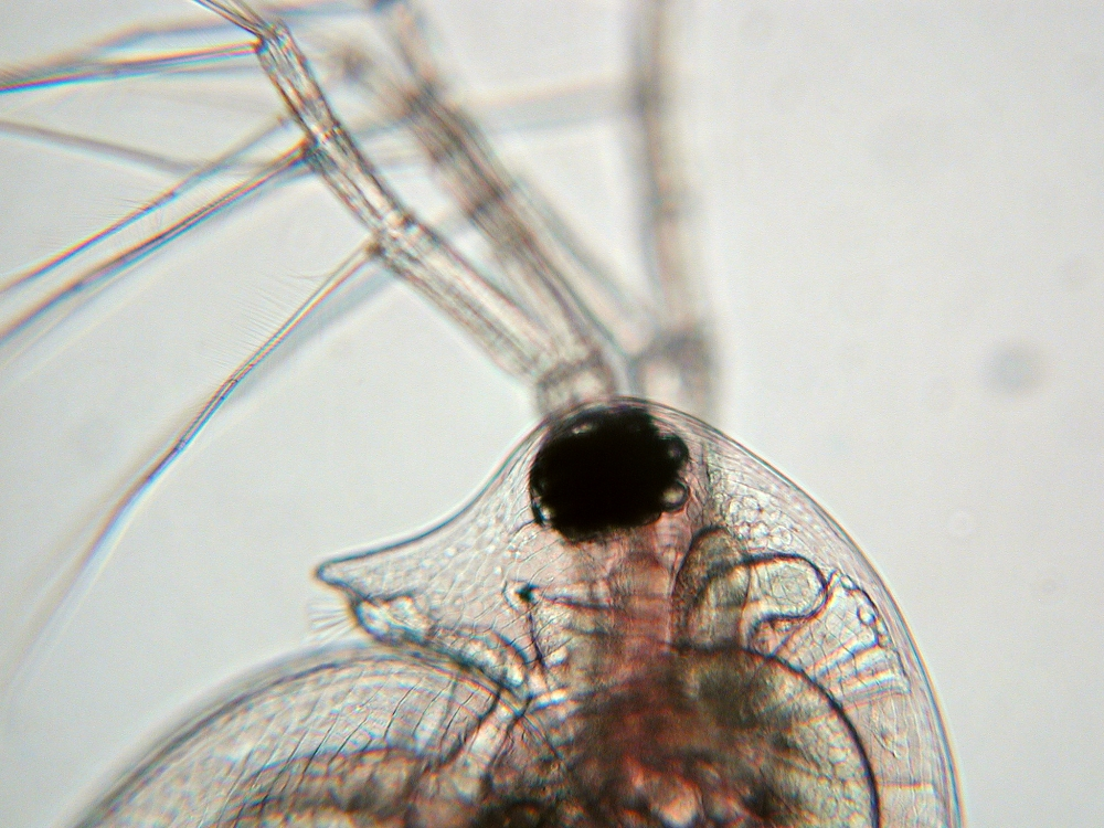 Daphnia spec., Frankfurt/Main, Germany